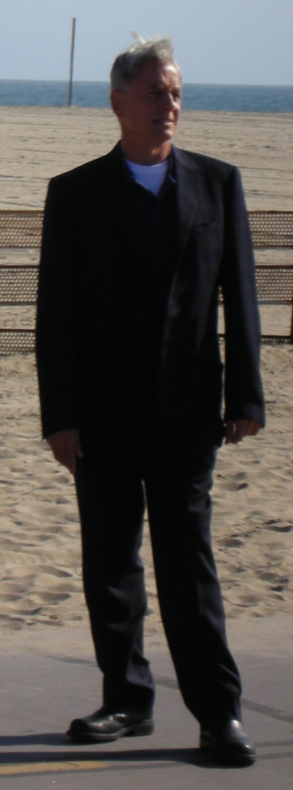 Actor Mark Harmon during NCIS Filming